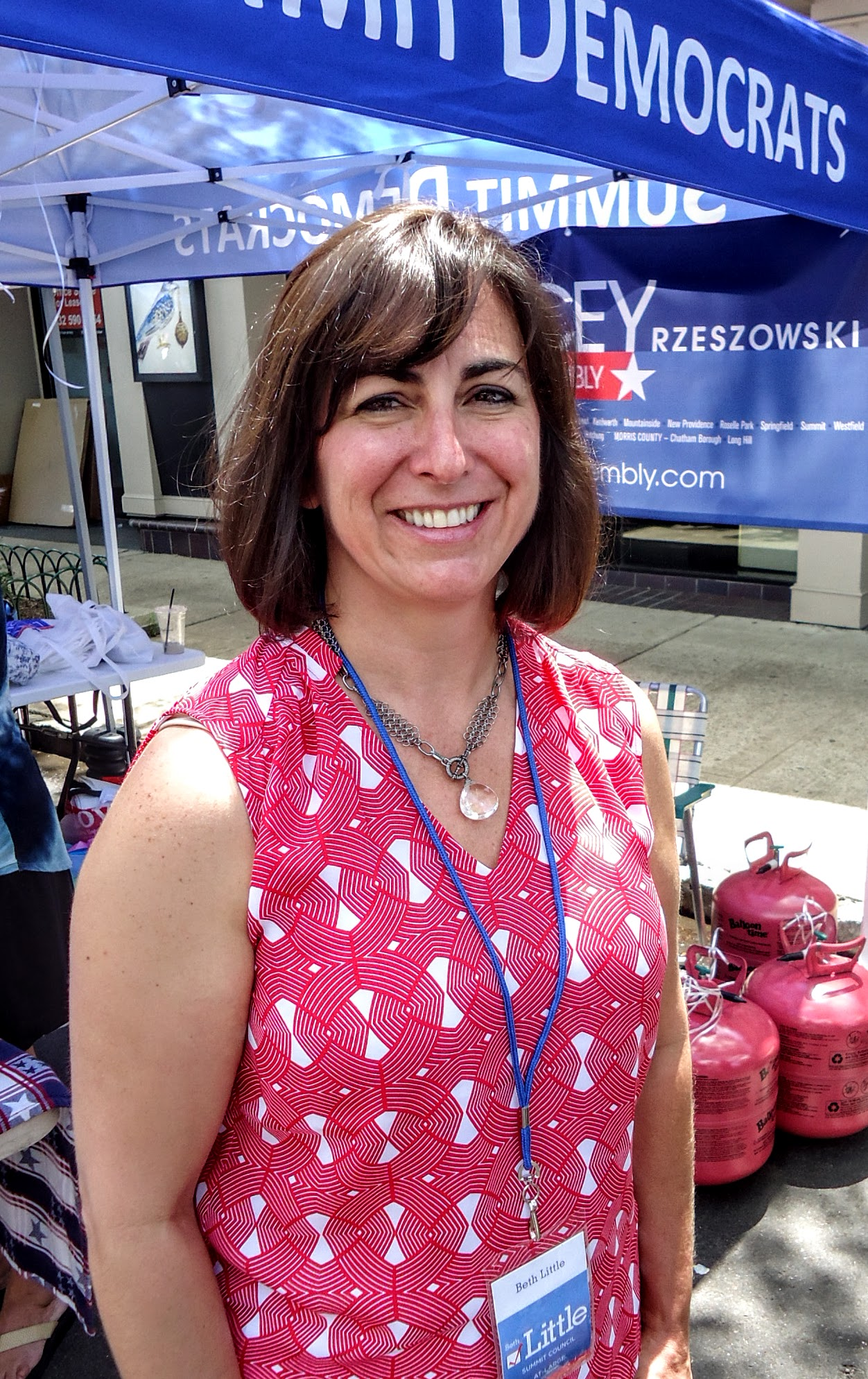 Democrat Beth Little is running for Summit Council in 2017 for the at-large position. She is a former prosecutor. Her volunteer work includes work with the Summit Educational Foundation, The Connection, the Santa Claus shop, the Summit Middle School PTO board. She has a BA and JD degrees from the University of Virginia.